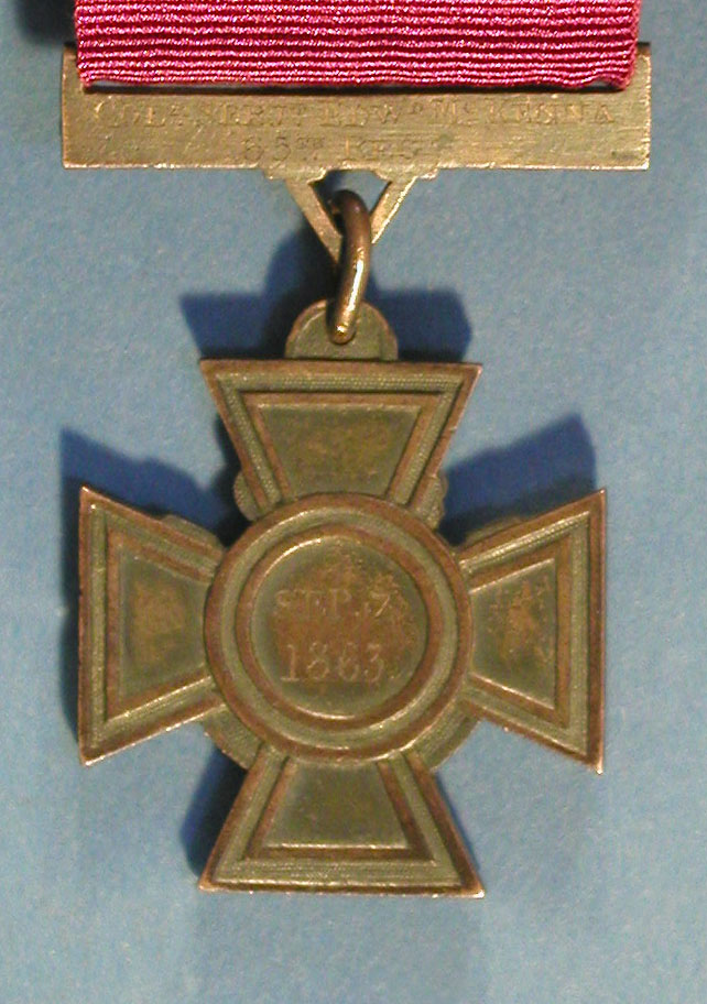 Victoria Cross of the Late Ensign McKenna VC, 65th Regiment. inscribed verso- SEP. 7 - 1863; inscribed on bar verso- COLR. SERJT. EDWD. MCKENNA 65TH REGT.